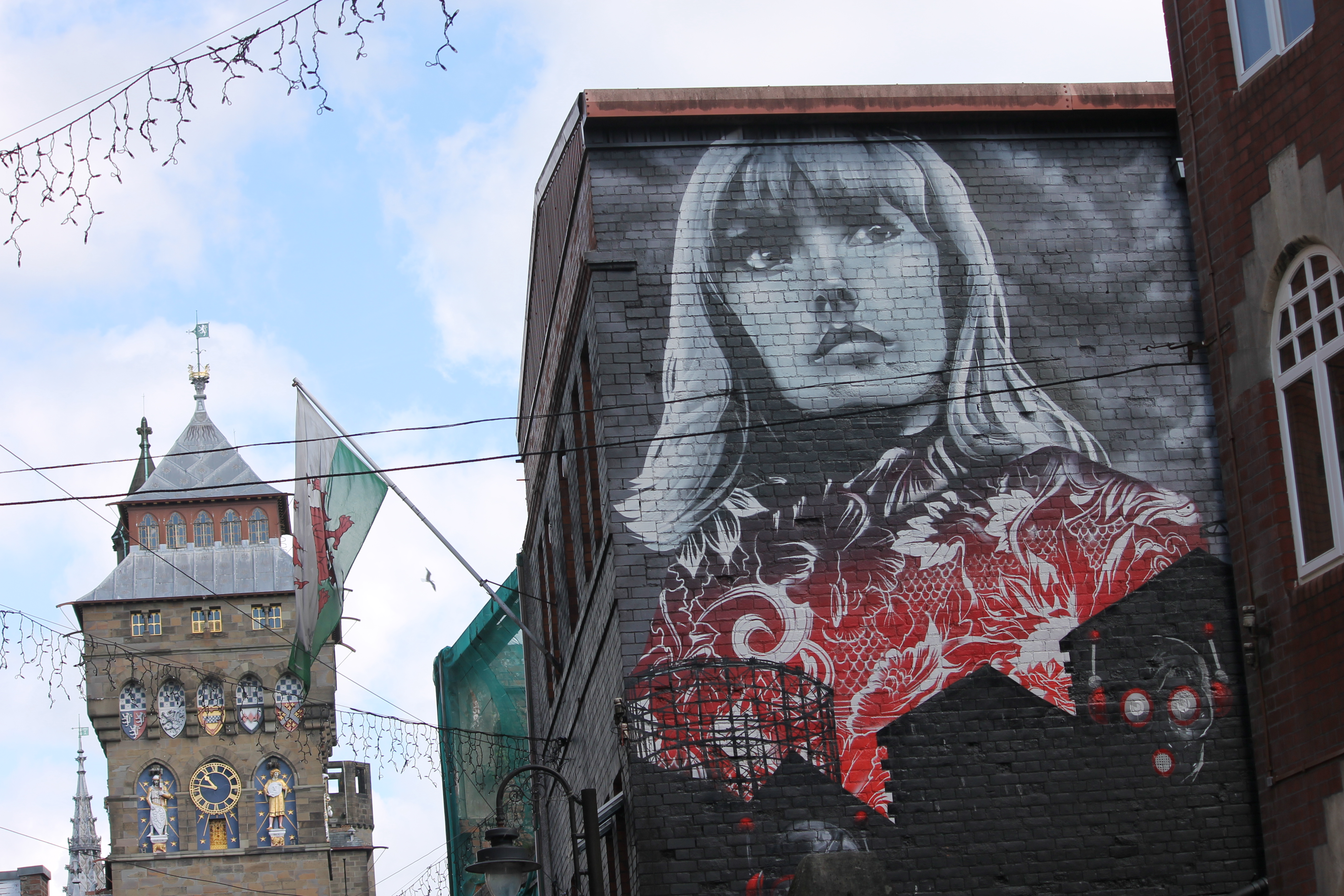 Mural at Womanby St, Cardiff, Wales by Mark James in celebration of Gwenno Saunders and her album 'Y Dydd Olaf' ('The Last Day') which was based on a sci-fi Welsh novel of the same name by Owain Owain written 1967-8 and published by Gwasg Gomer in 1976.